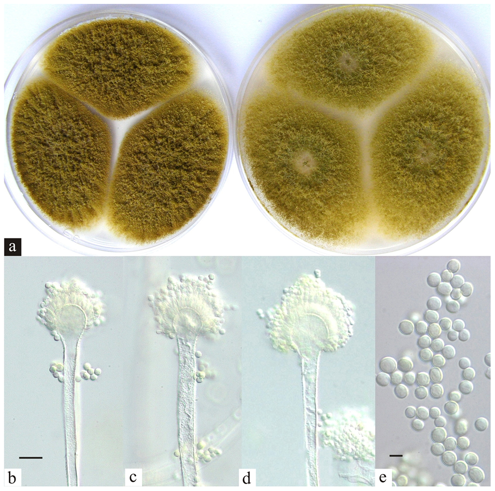 Aspergillus bertholletius. (a) Colonies on Czapek yeast extract agar and malt extract agar after 7 days incubation at 25°C; (b, c, d) conidial heads, bar = 10 µm; (d) conidia, bar = 5 µm.